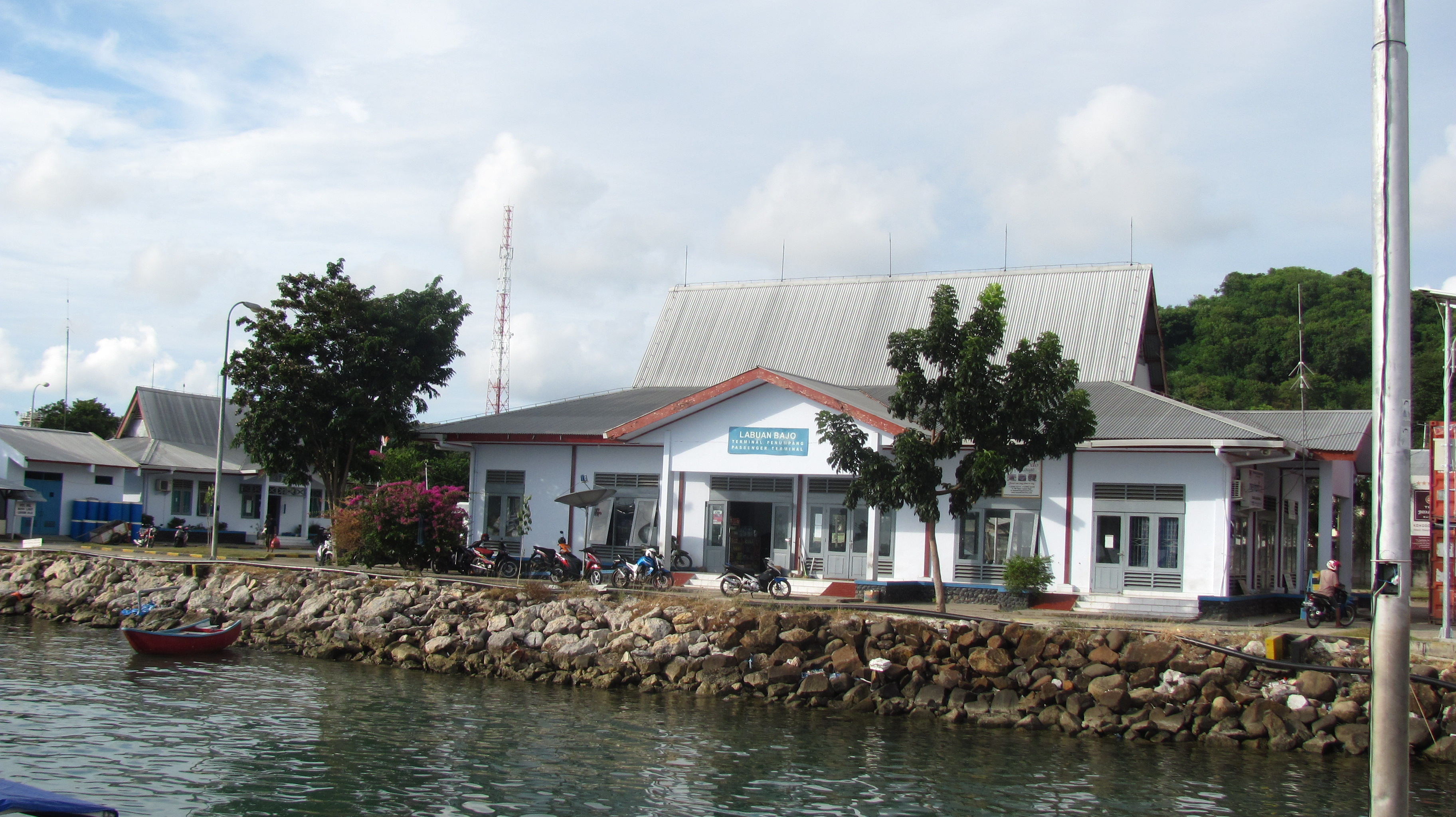 Harbour of Labuhan Bajo, Flores, Indonesia